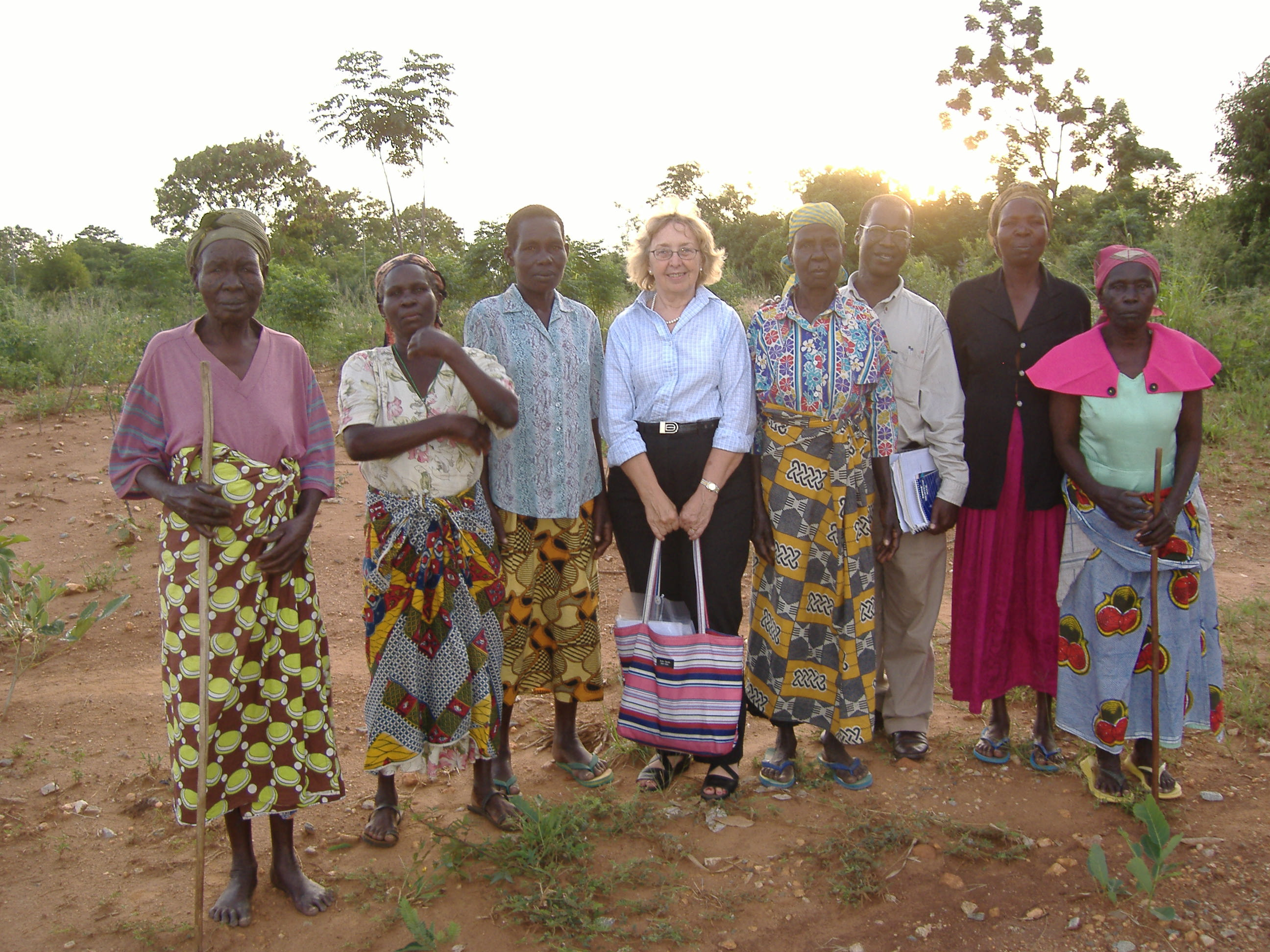 This is a photo of representatives from villages in the Northern Region of Uganda, and one of development agencies in North America. It was taken in the fall of 2004 in the Northern Region of Uganda.